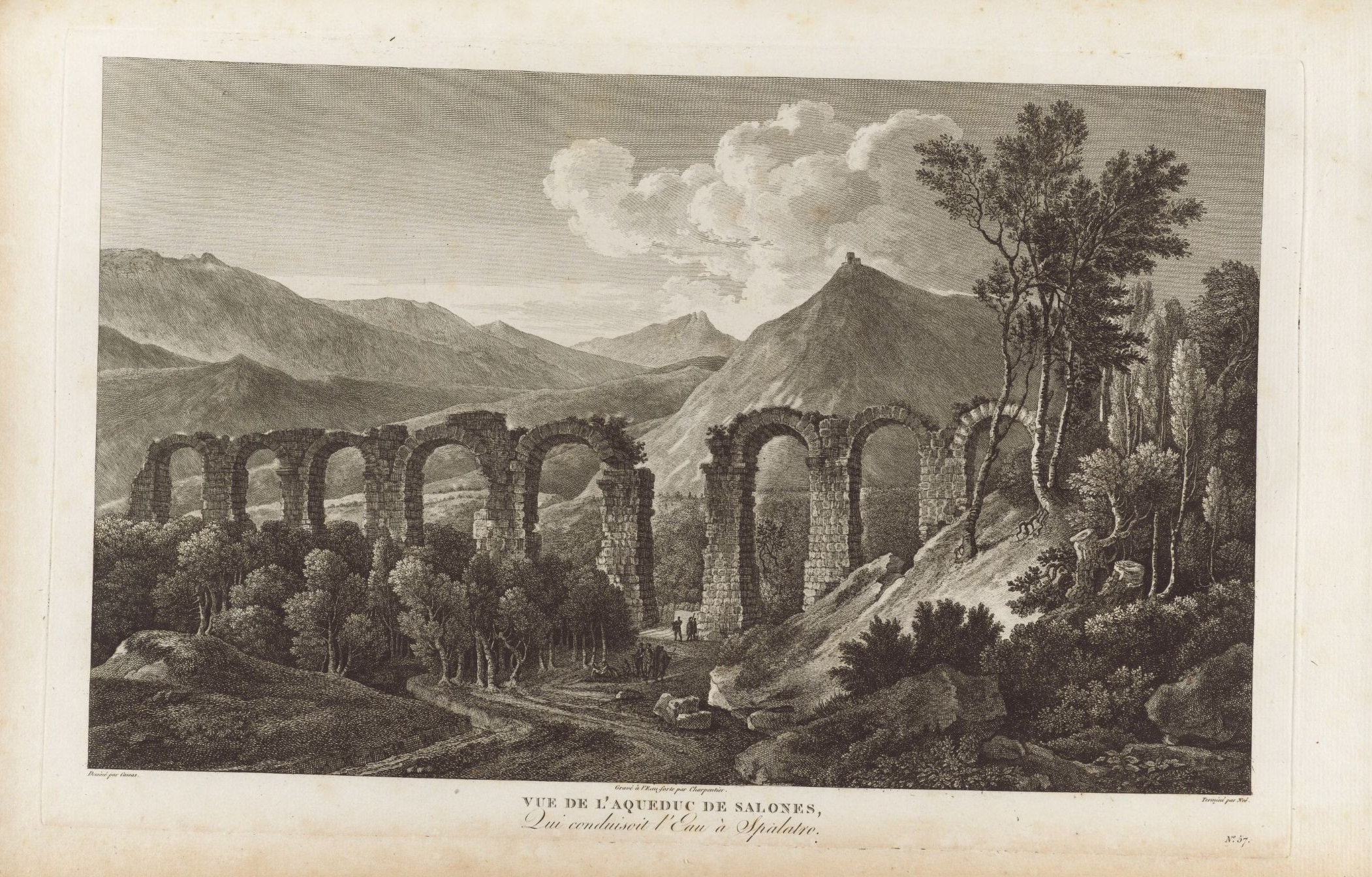 Illustration "Vue de L'aqueduc de Salones" from Voyage pittoresque et historique de l’Istrie et Dalmatie, Paris: 1802, by Louis-François Cassas (1756-1827). Typ 815.02.2616, Houghton Library, Harvard University